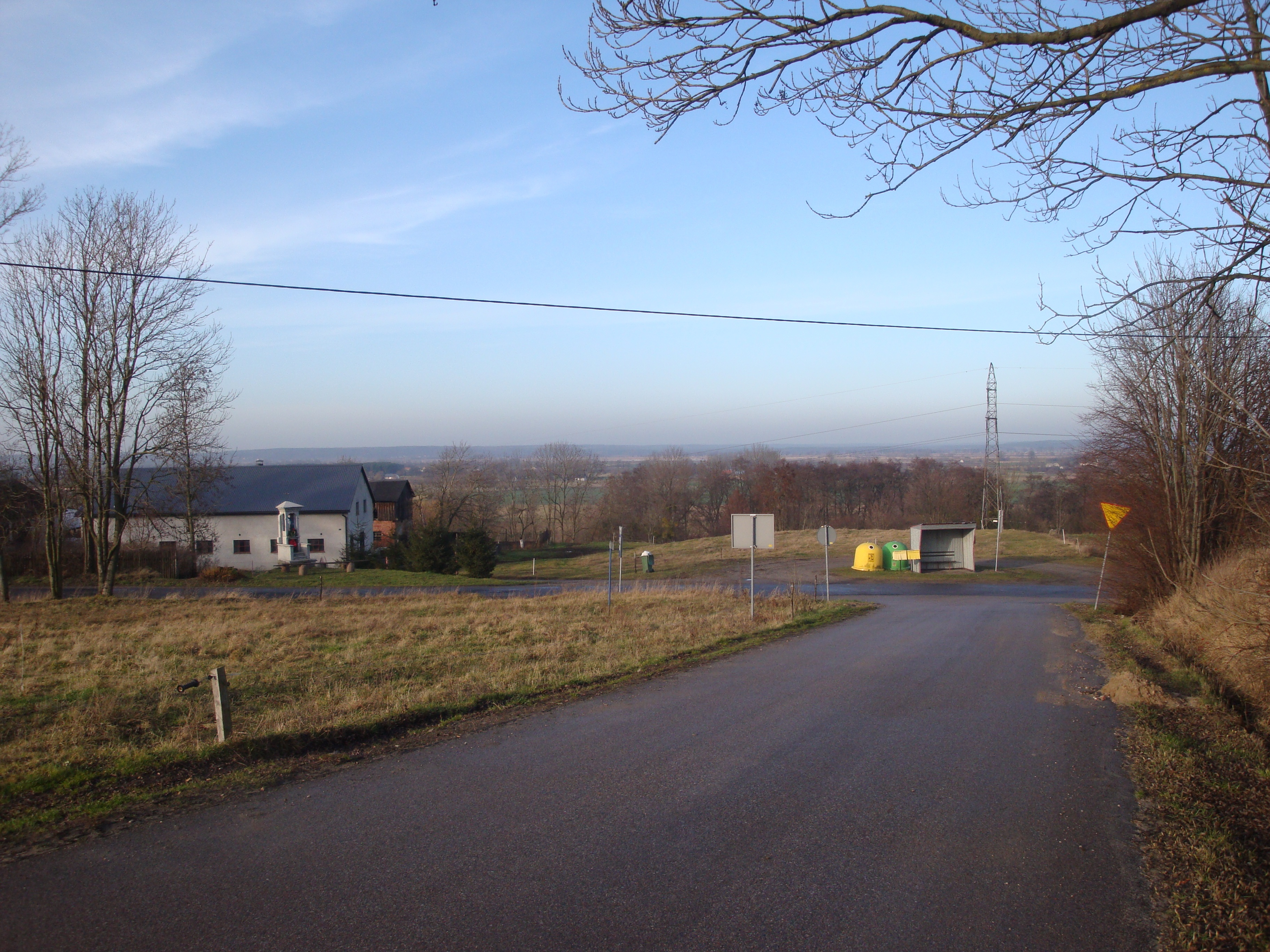 Gogolin - village near Grudziądz, Poland.